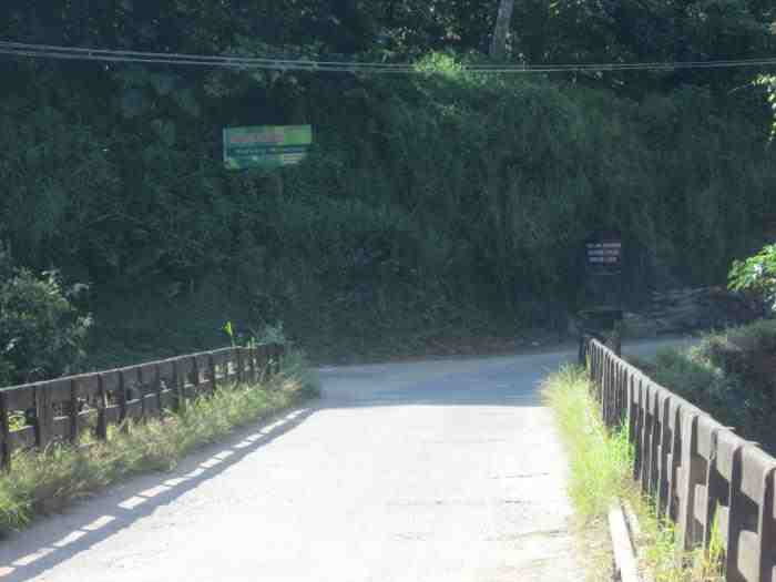 Pic By Alan Sebastian Kunnumpurath